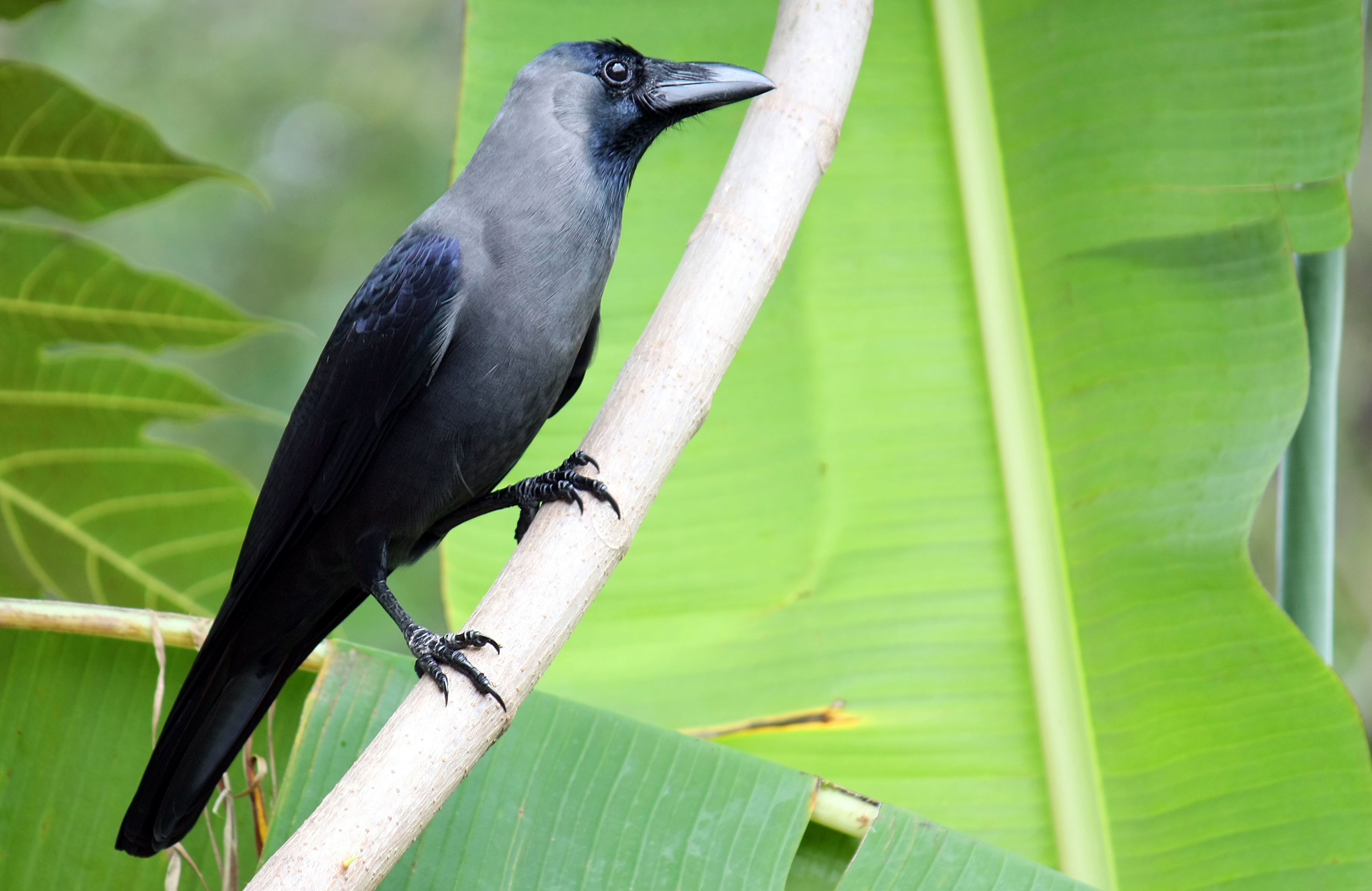 House crow in Batticaloa, Sri Lanka